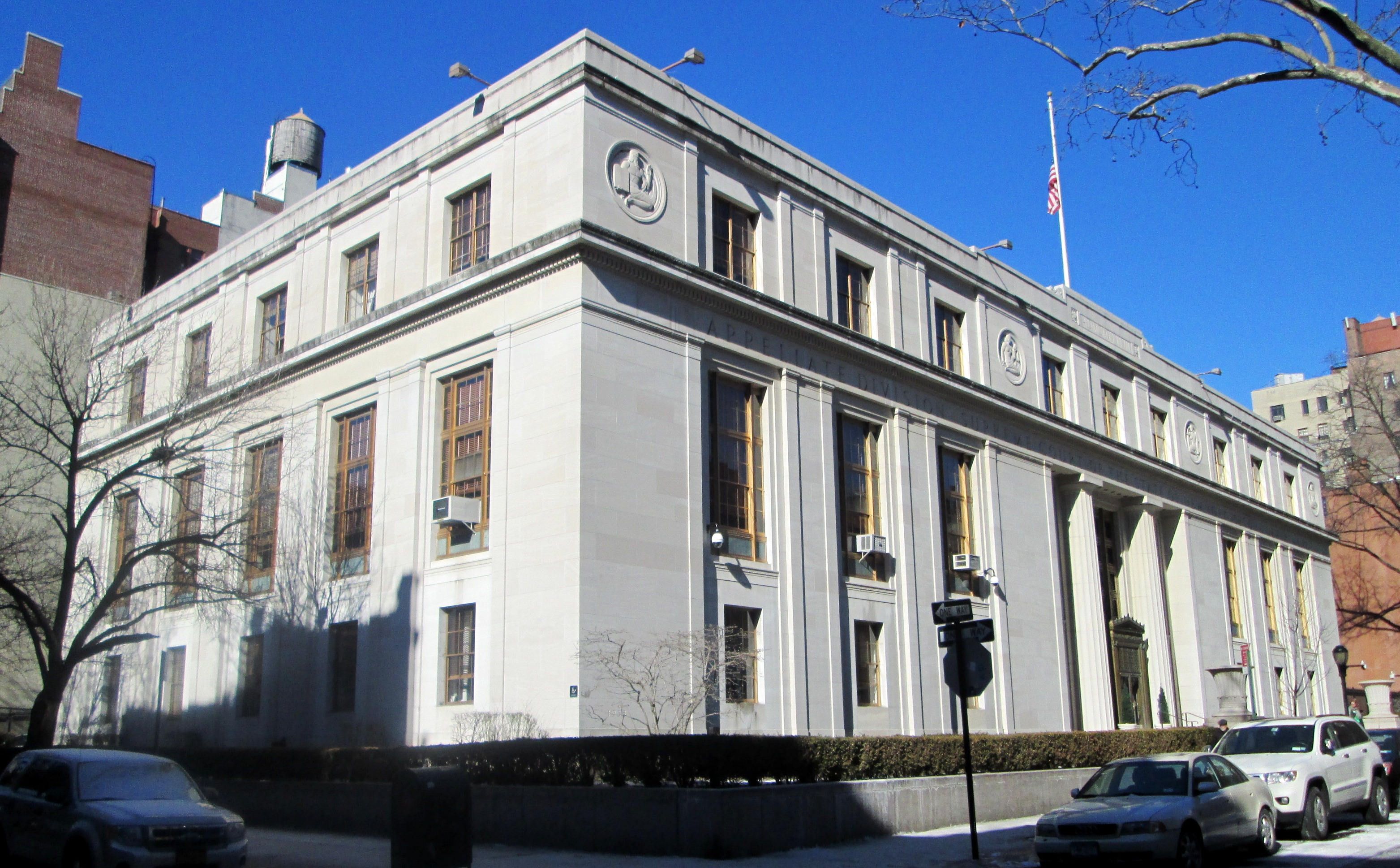 The Appellate Division Courthouse for the Second Judicial Department of the New York State Supreme Court at 45 Monroe Place at the corner of Pierrepont Street in the Brooklyn Heights neighborhood of Brooklyn, New York City was built in 1938 and was designed by Slee & Bryson in the Classical Revival style. (Source: AIA Guide to NYC (5th ed.))